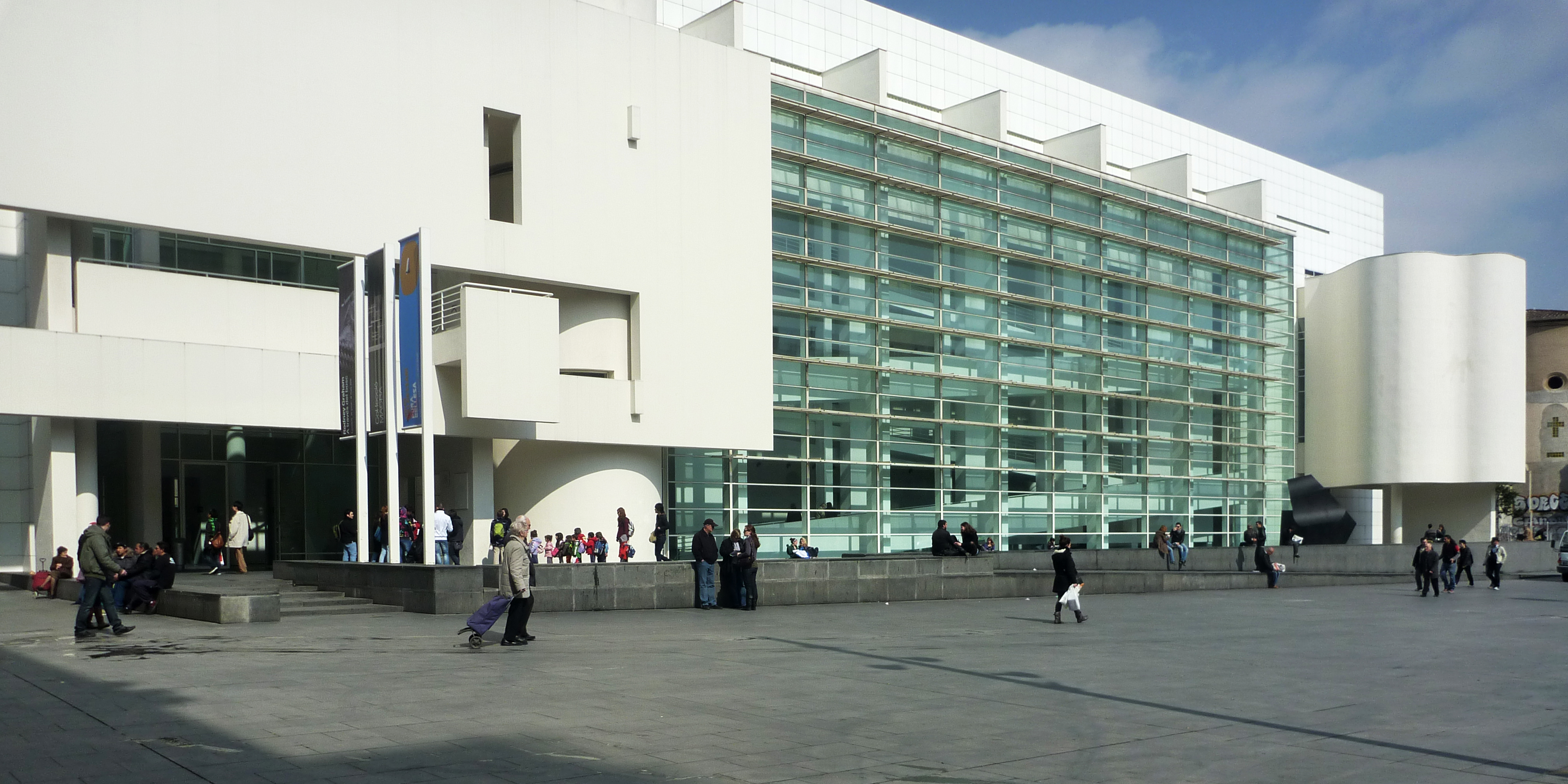 Barcelona Museum of Contemporary Art by RichardMeier